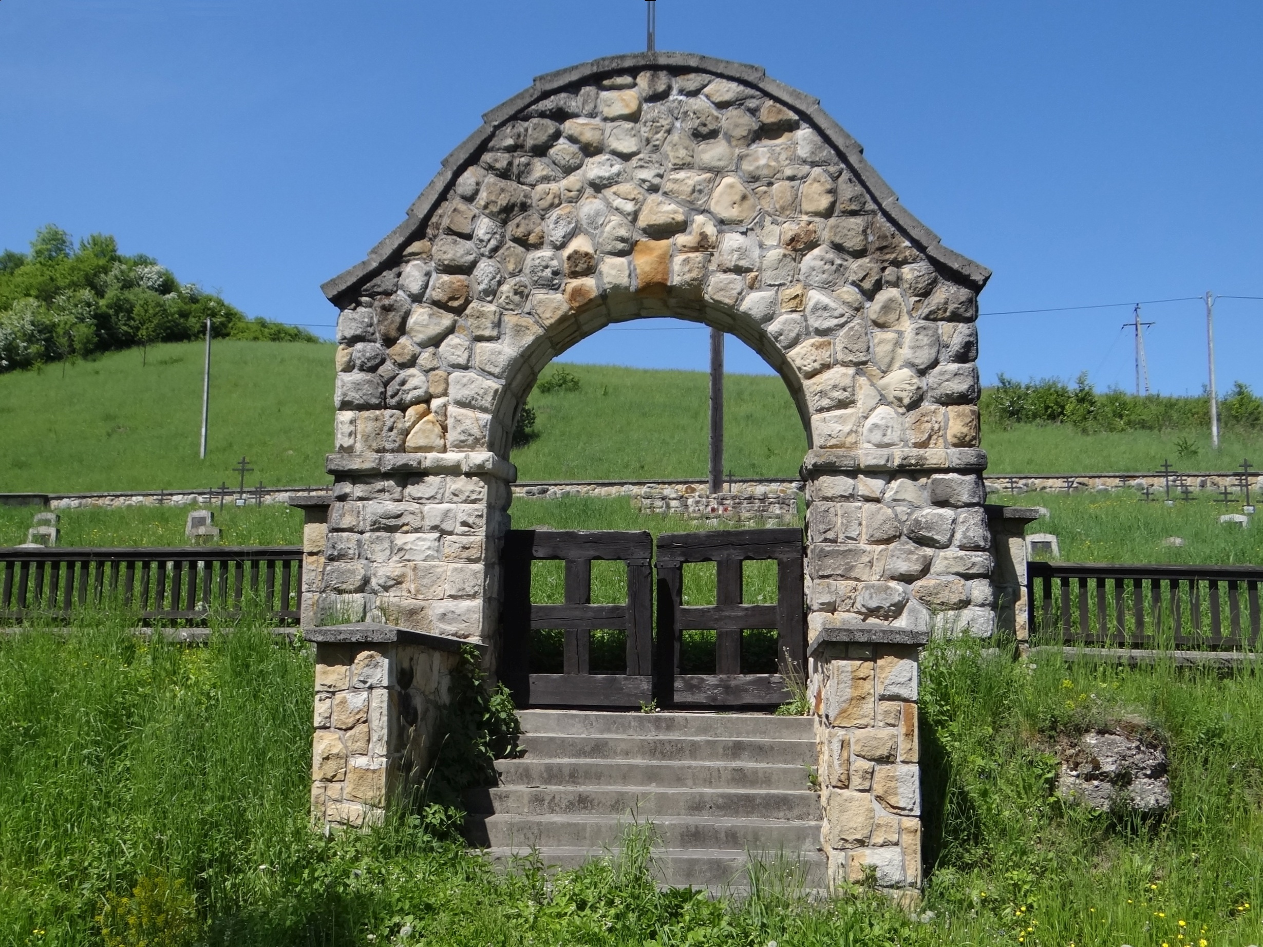 World War I Cemetery nr 143 in Ostrusza